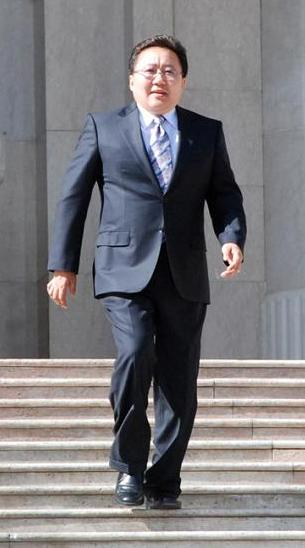 Tsakhiagiin Elbegdorj Монгол: Цахиагийн Элбэгдорж